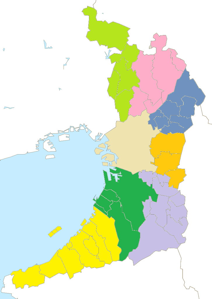 Regions of the prefecture of Osaka